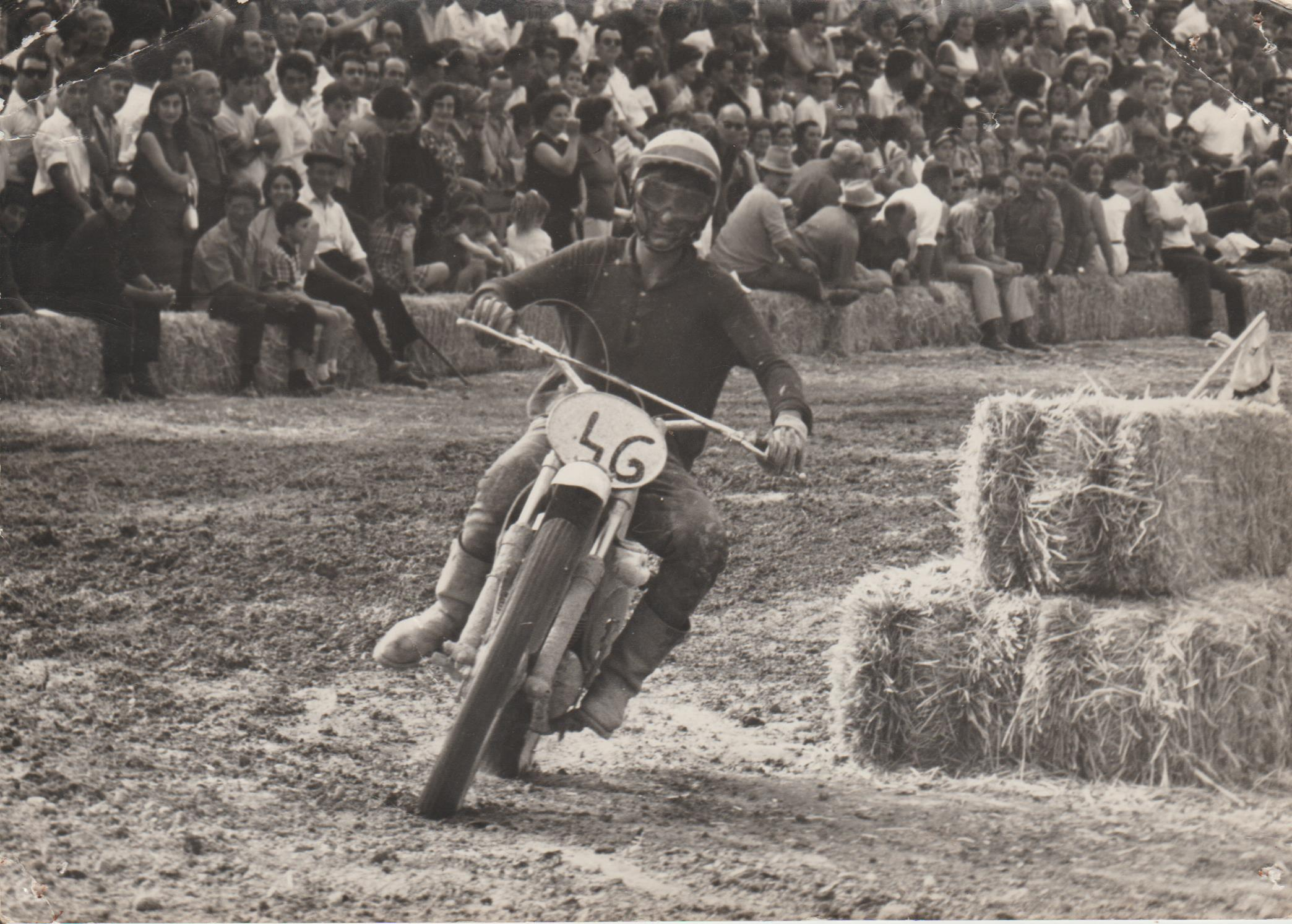 Domingo Gris at 1967 Oliana Motocross